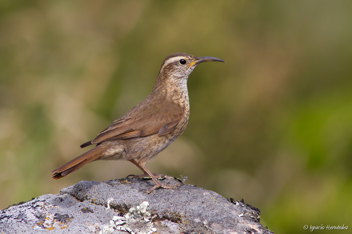 Patagonian Forest Earthcreeper; San Martin de los Andes, Neuquen, Argentina